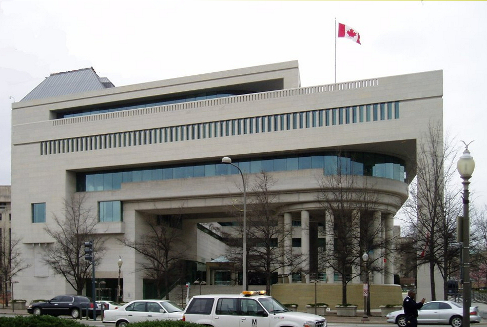 Modification of Image:Canadian embassy in Washington.JPG as made by User:SimonP in April 2005. corrected for perspective tilt.